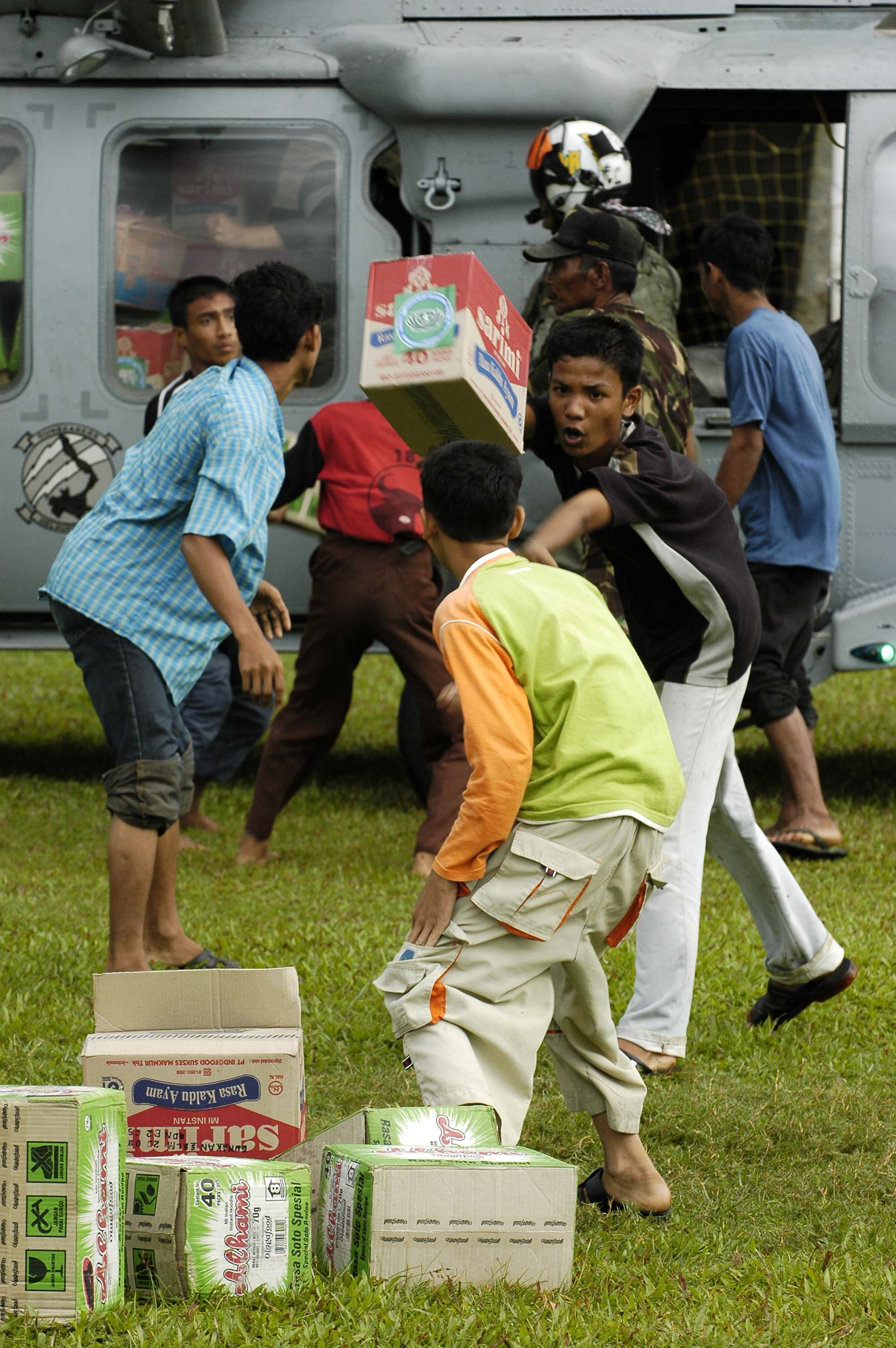 Lamno, Sumatra, Indonesia (Jan. 6, 2005) - Indonesian children in Lamno, Sumatra, Indonesia, work together to unload relief supplies out of a MH-60S Knighthawk helicopter assigned to the “Gunbearers” of Helicopter Combat Support Squadron Eleven (HC-11). Helicopters assigned to Carrier Air Wing Two (CVW-2) and Sailors from Abraham Lincoln are supporting Operation Unified Assistance, the humanitarian operation effort in the wake of the Tsunami that struck South East Asia. The Abraham Lincoln Carrier Strike Group is currently operating in the Indian Ocean off the waters of Indonesia and Thailand. U.S. Navy photo by Photographer’s Mate Airman Jordon R. Beesley (RELEASED)